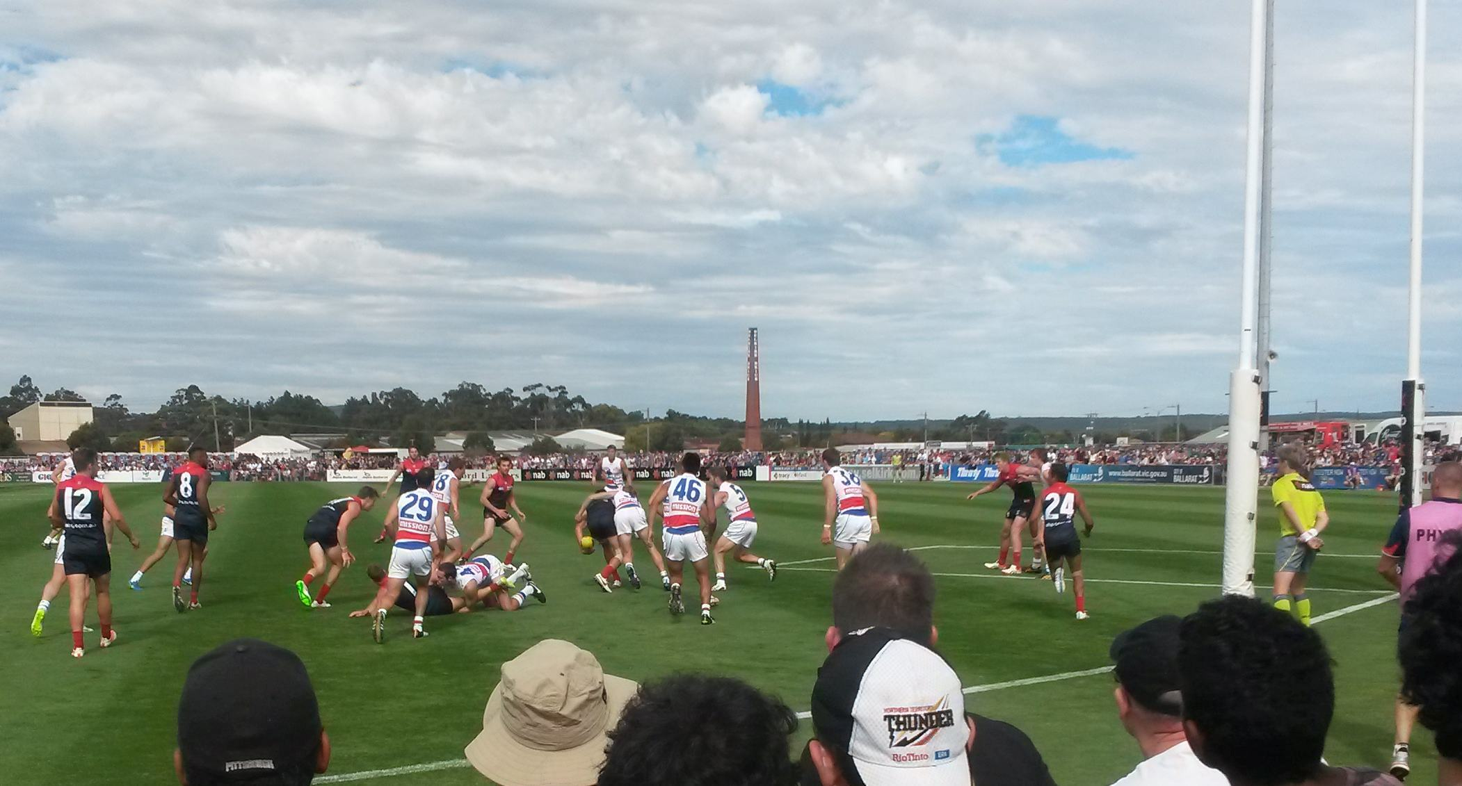 AFL match Western Bulldogs vs Melbourne at Eureka Stadium 2015